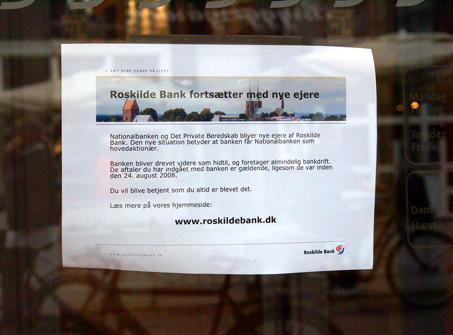 Roskilde Bank, Roskilde, Denmark. Information on new owner (The Danish National Bank and a Bank Trust) were fit to the door on monday morning, 25th August 2008. The whole translation of the text is: "Roskilde Bank continues with new owners - The National Bank and The Private Saving Trust are the new owners of Roskilde Bank. The new situation means that the National Bank wil be the main shareholder. The Bank will continue as before, and continue with bank-business as usual. Agreement You may have with the bank is still valid, like they were before 24th August 2008. You shall be served as you always have been. Read more on our homepage - Roskilde Bank was the 10th largest bank in Denmark, but have made too many and too big and too risky credit agreement to some very big customers. The loss until now is aound ½ billion Euro but might be as big as 1 billion Euro, or even more. It it the first bank overtake by The Danish National Bank since 1928.